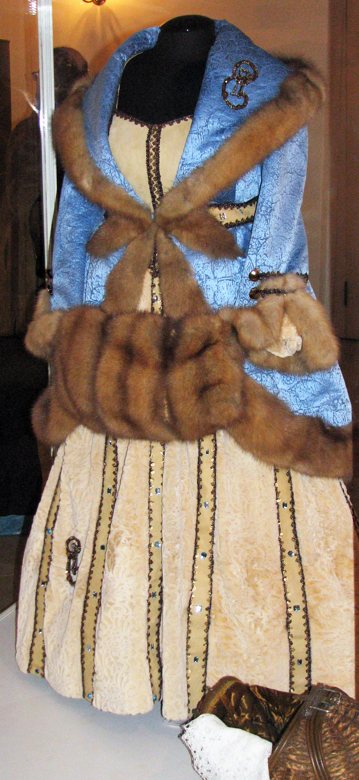 Winter traveling costume of Empress Catherine II. A modern replica made by museum piece (1780s).